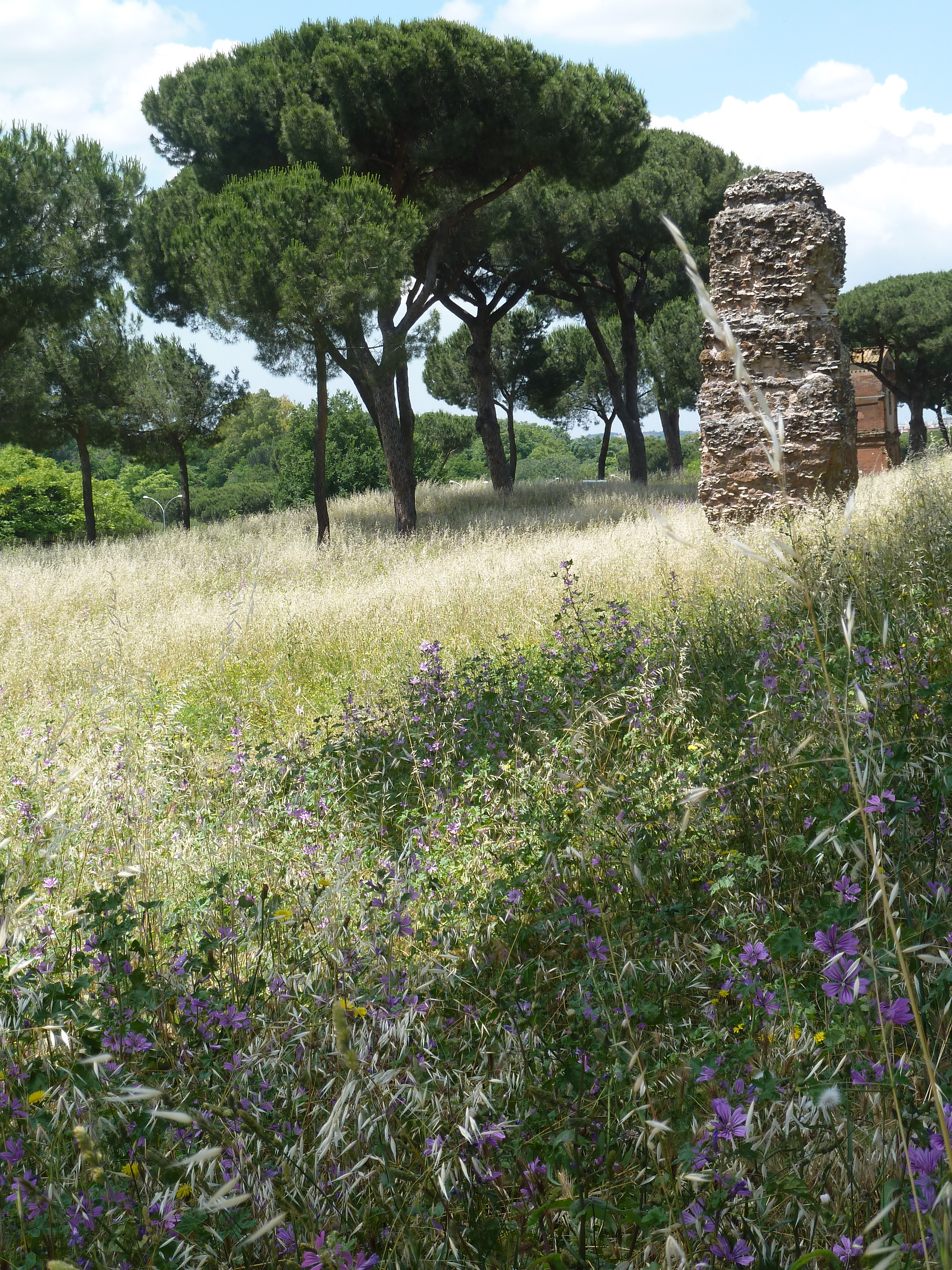 Tombe Latina Meadowland